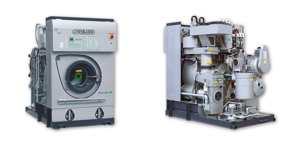 Saver 40 Slim